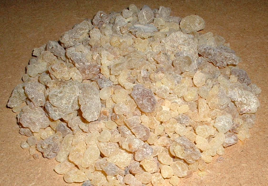 100g of frankincense resin. This material comes from Dhofar region of Oman and is absolutely the finest frankincense in the world.